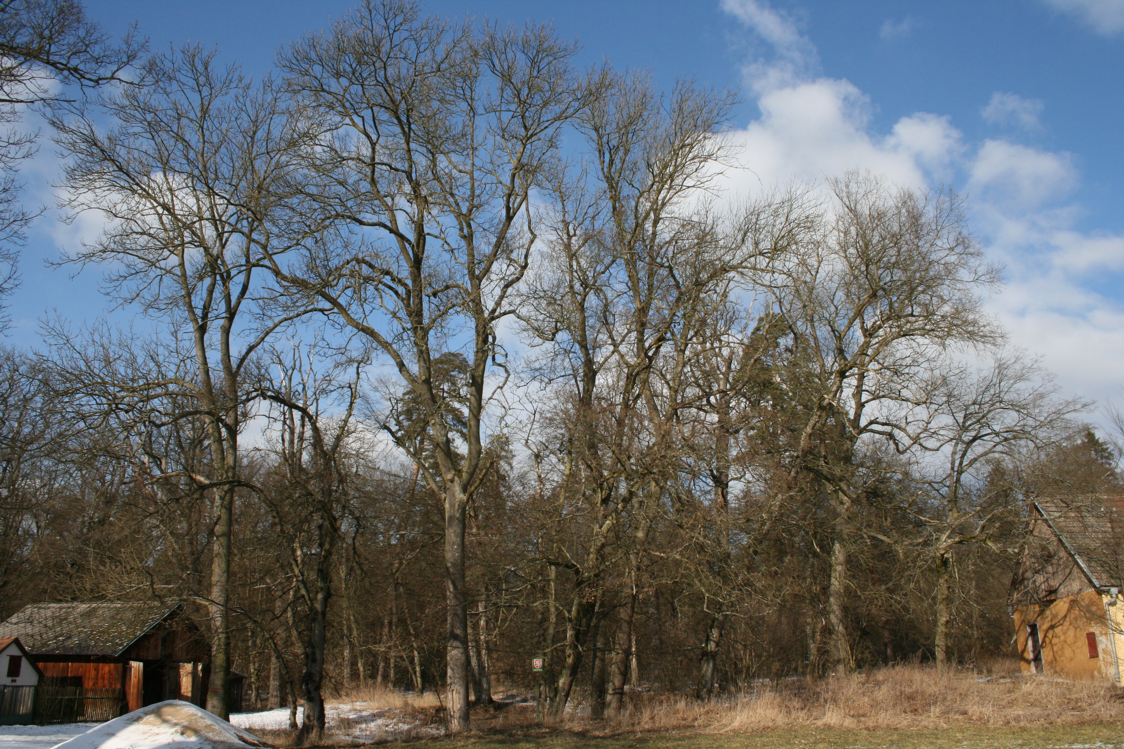 Nature park Černá hora, Tábor District, Czech Republic.